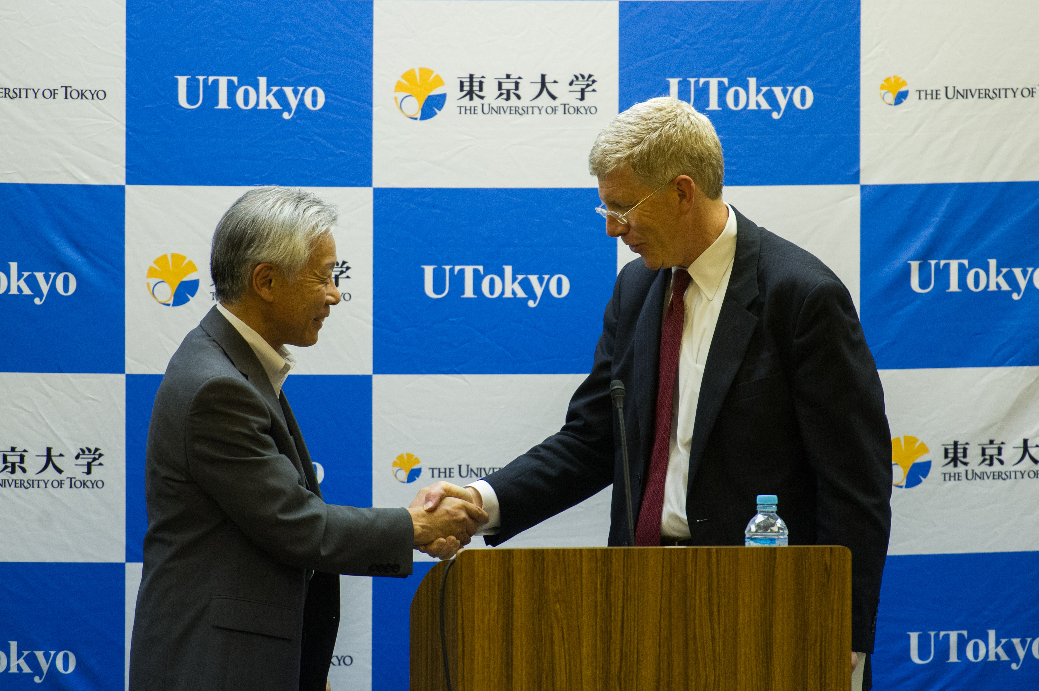 Daniel Poneman, Deputy Secretary of Energy, met Yōichirō Matsumoto, Managing Director of the National University Corporation University of Tokyo, Executive Vice President of the University of Tokyo, at the Faculty of Engineering Bldg. 8, Hongo Campus, University of Tokyo, in Bunkyō Ward, Tōkyō Metropolis on June 12, 2014.